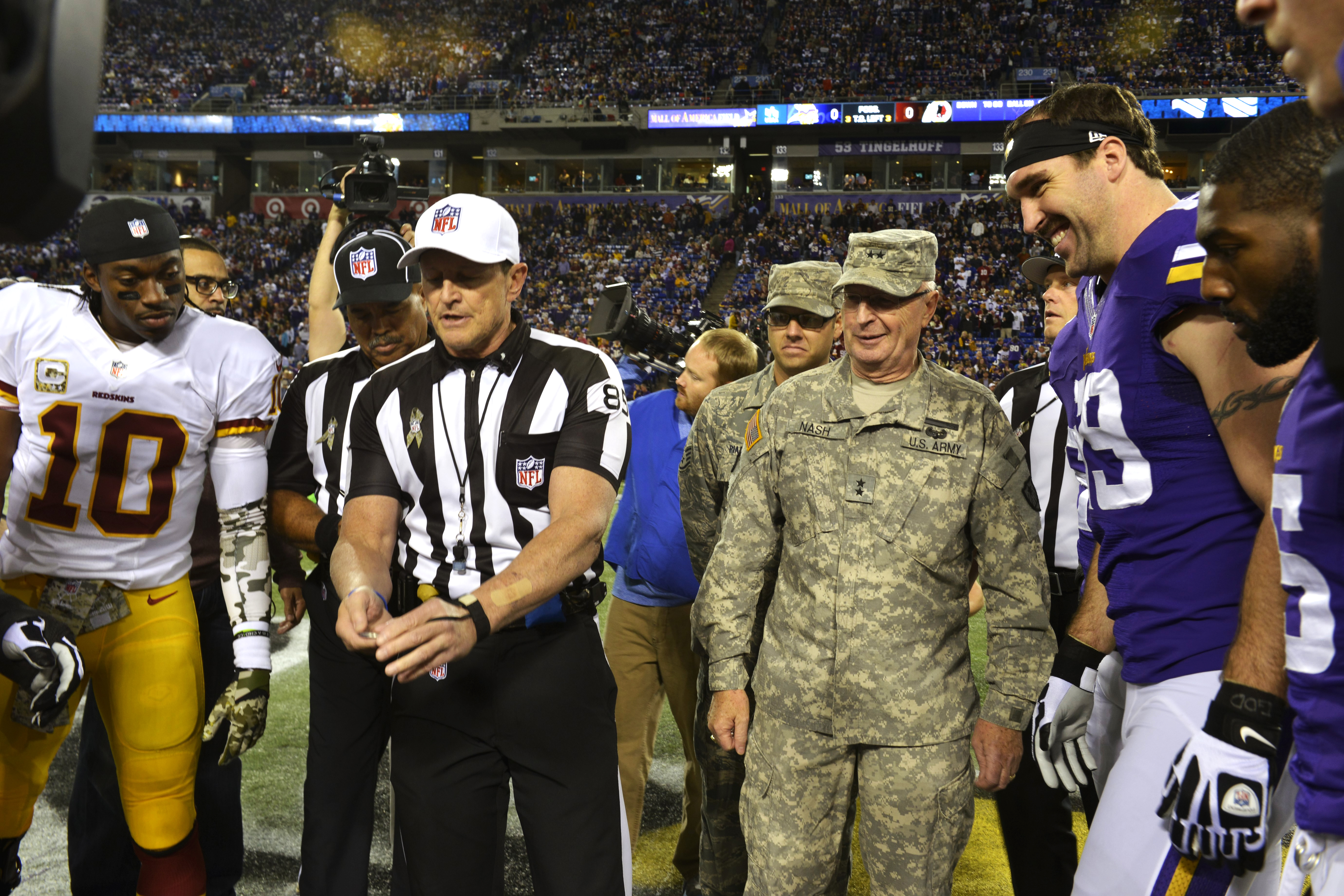 Washington Redskins QB Robert Griffin III and Minnesota Vikings DE Jared Allen and WR Greg Jennings before the 2013 Vikings Military Appreciation Day